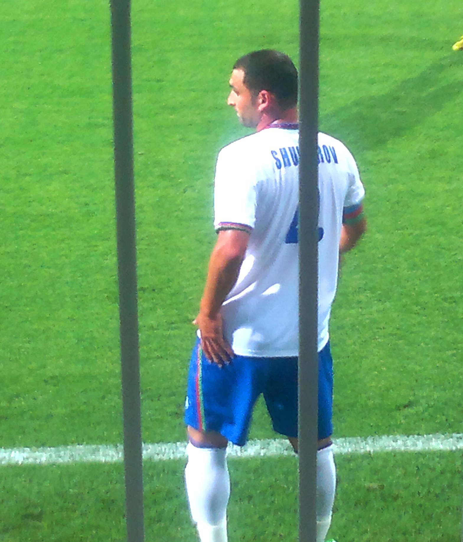 Mahir Shukurov, Azerbaijan national football team, vs Malta. Bakcell Arena, Baku.